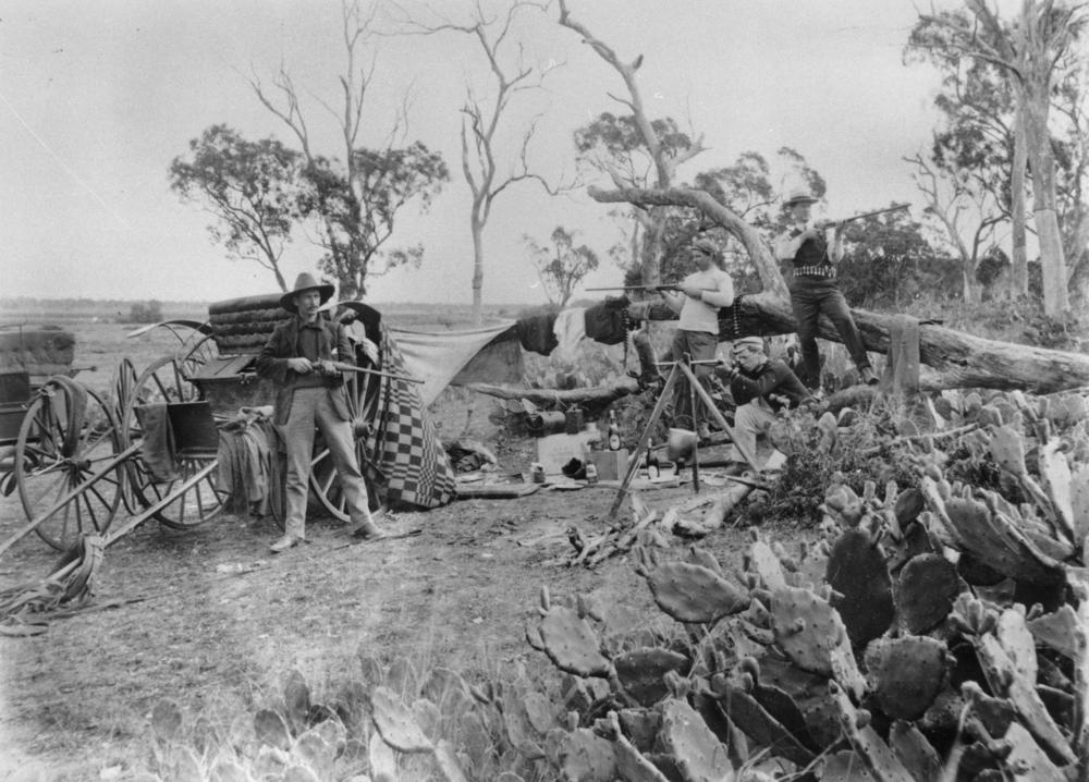 Creator: Unidentified. Location: Pilton, Queensland; Lat/long: -27.866739,152.047913 Description: Kangaroo shooting party, Pilton View this image at the State Library of Queensland: Information about State Library of Queensland’s collection: You are free to use this image without permission. Please attribute State Library of Queensland.